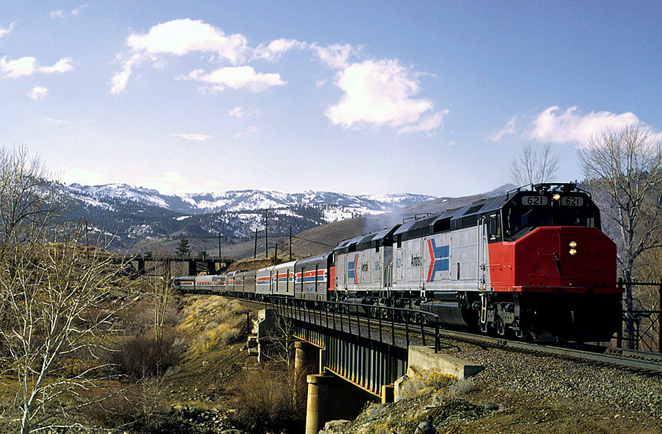 Amtrak SDP40F #621 leads the San Francisco Zephyr over the Truckee River in Verdi, Nevada in February 1975